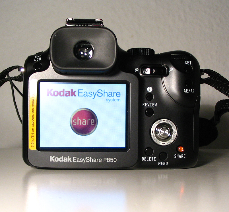 Back of a Kodak P850